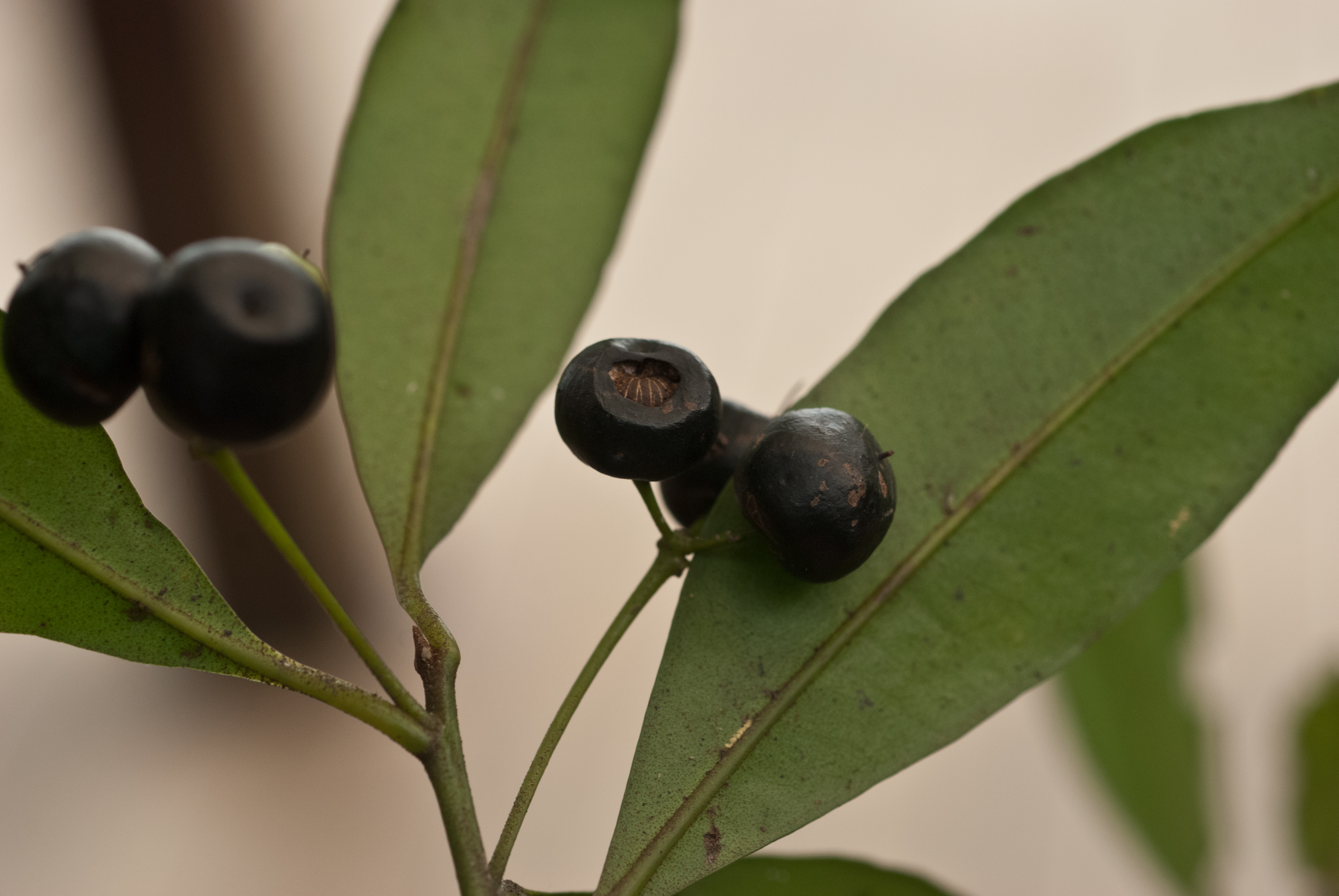 Ardisia quinquegona.